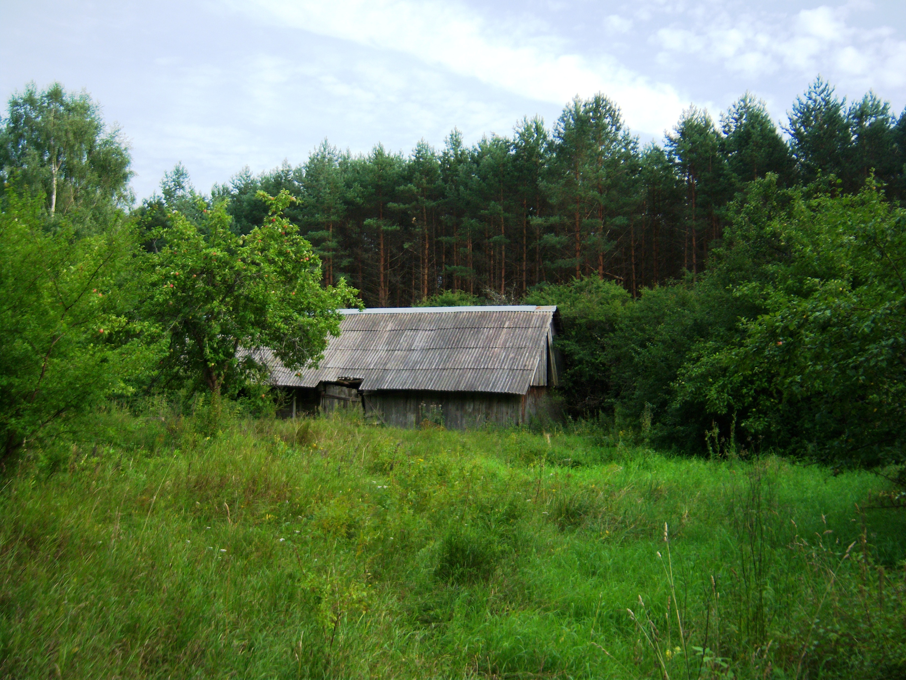 Abandoned homestead in the forest after a fire in 1993, Riogliškiai, Kaunas district. Lithuania